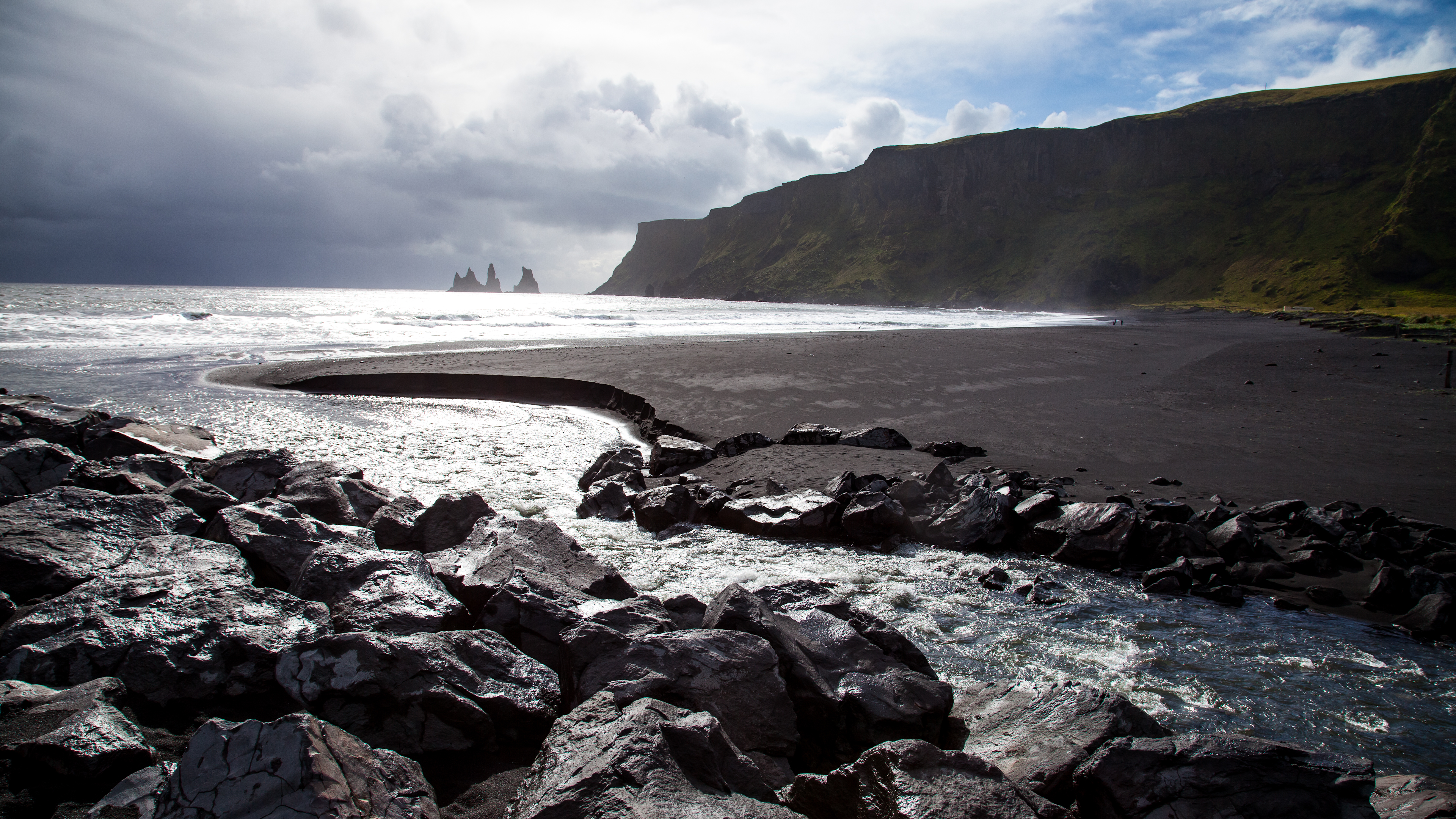 Black sand beach in Vík í Mýrdal, Iceland